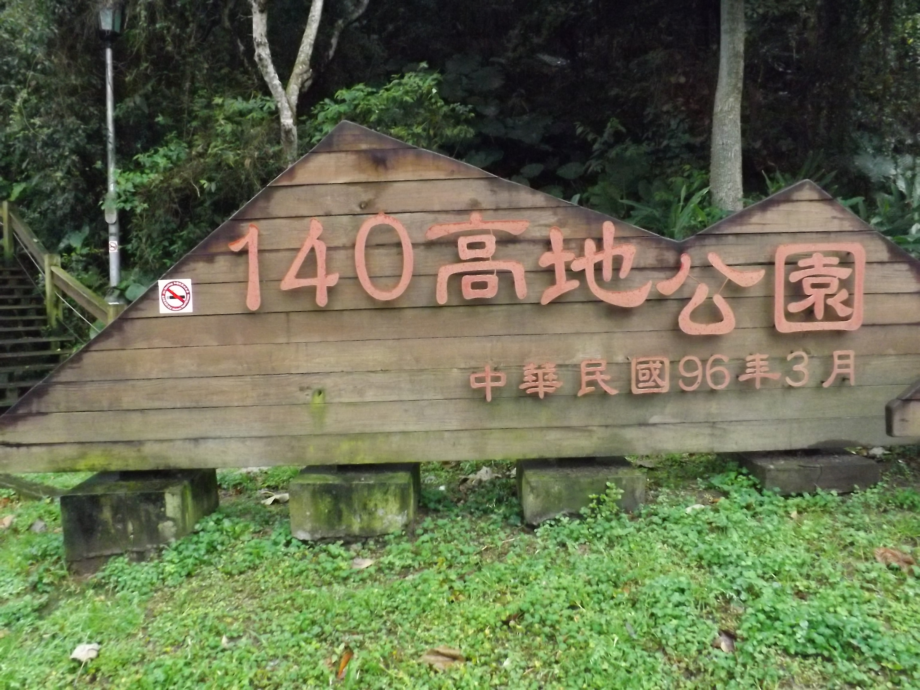 Signs of 140 Hill Park, Taipei City